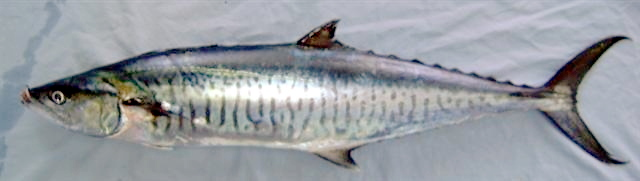 Scomberomorus commerson, Indian ocean, Pakistan